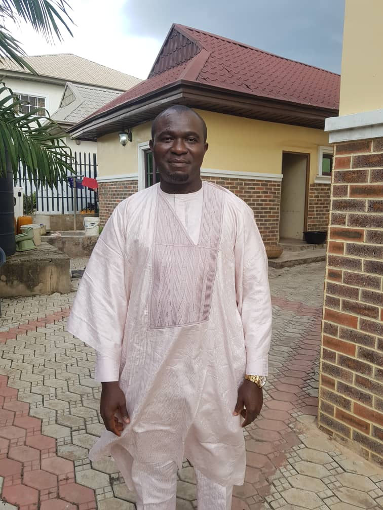 A picture of PDP National Youth Leader, Rt. Hon. S. K. E. Udeh-Okoye, in his residence in Enugu State, Nigeria.